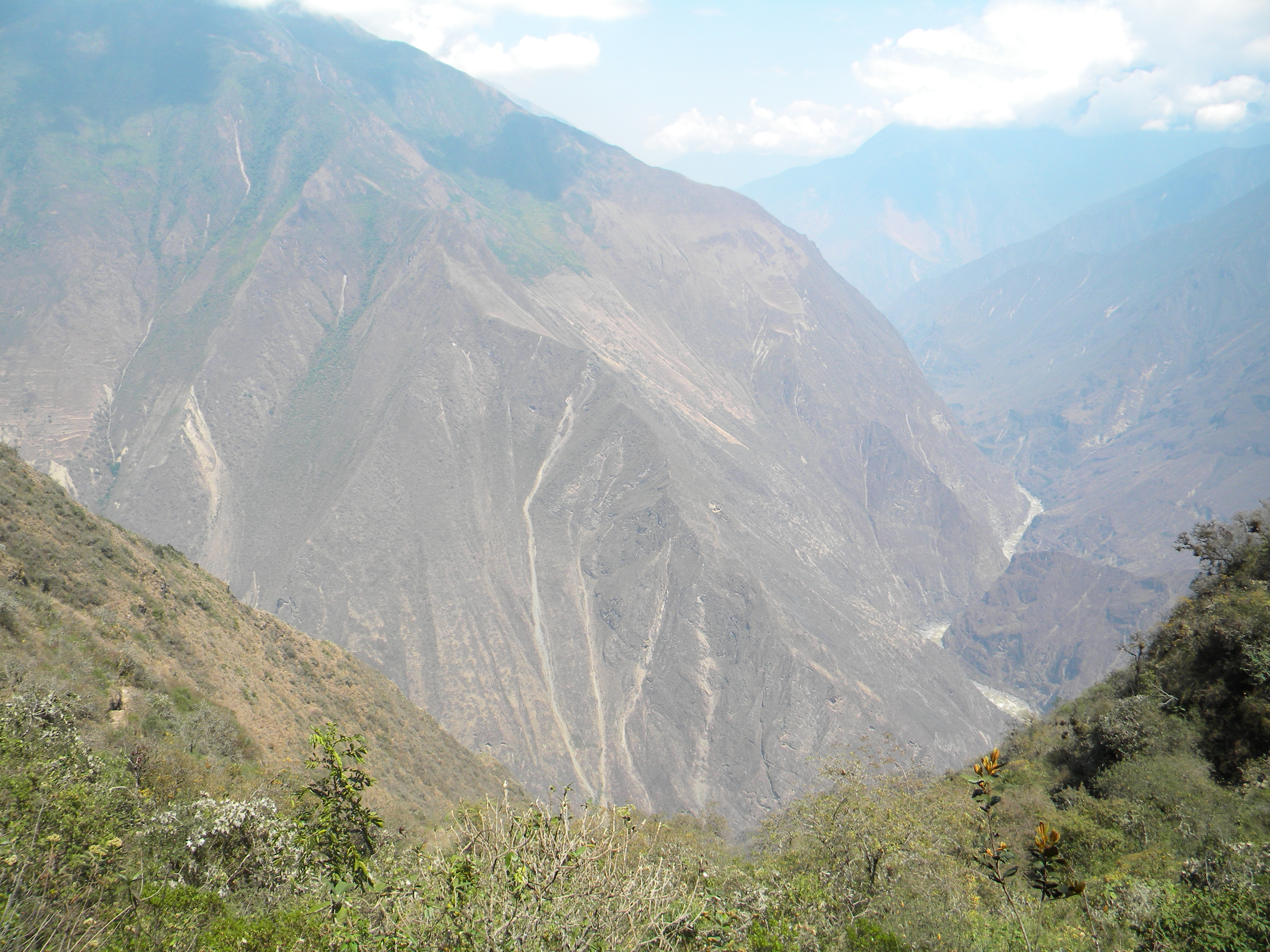 Apurimac's Canyon seen from Choquequirao